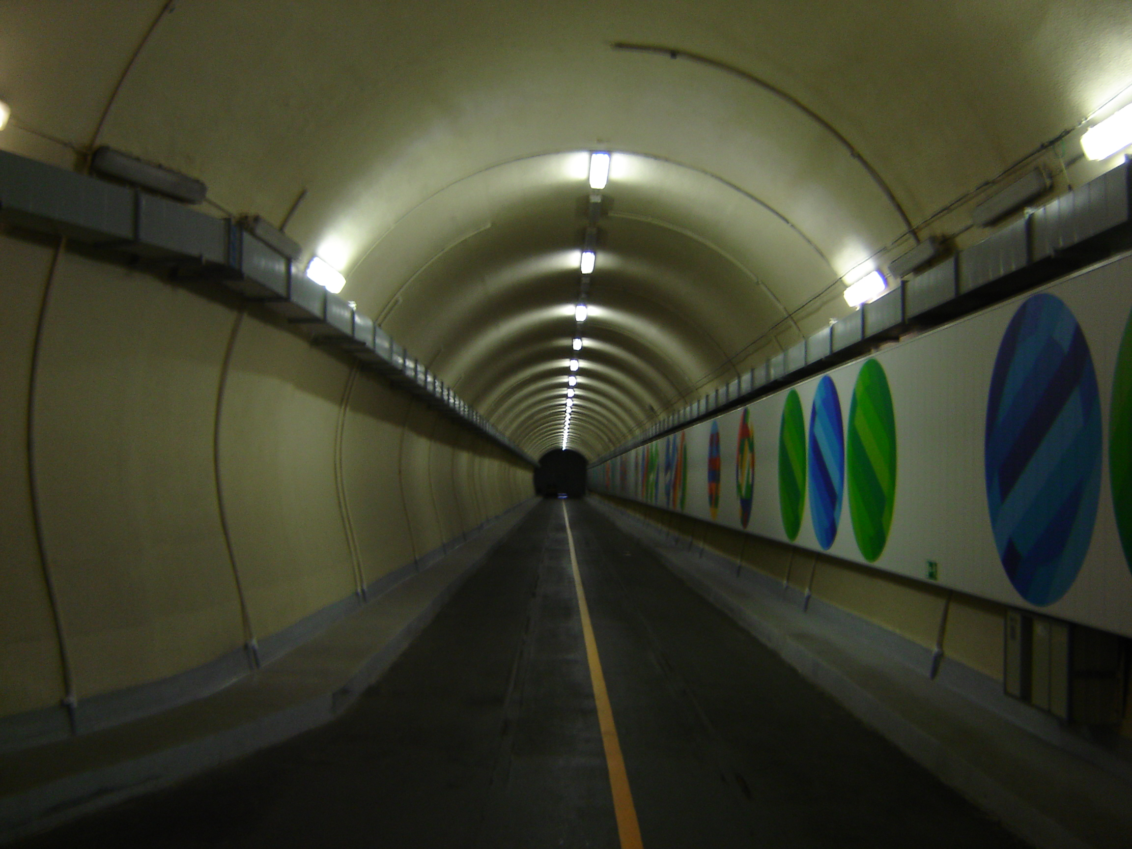 Dlouhé Stráně, tunnel with color decorations